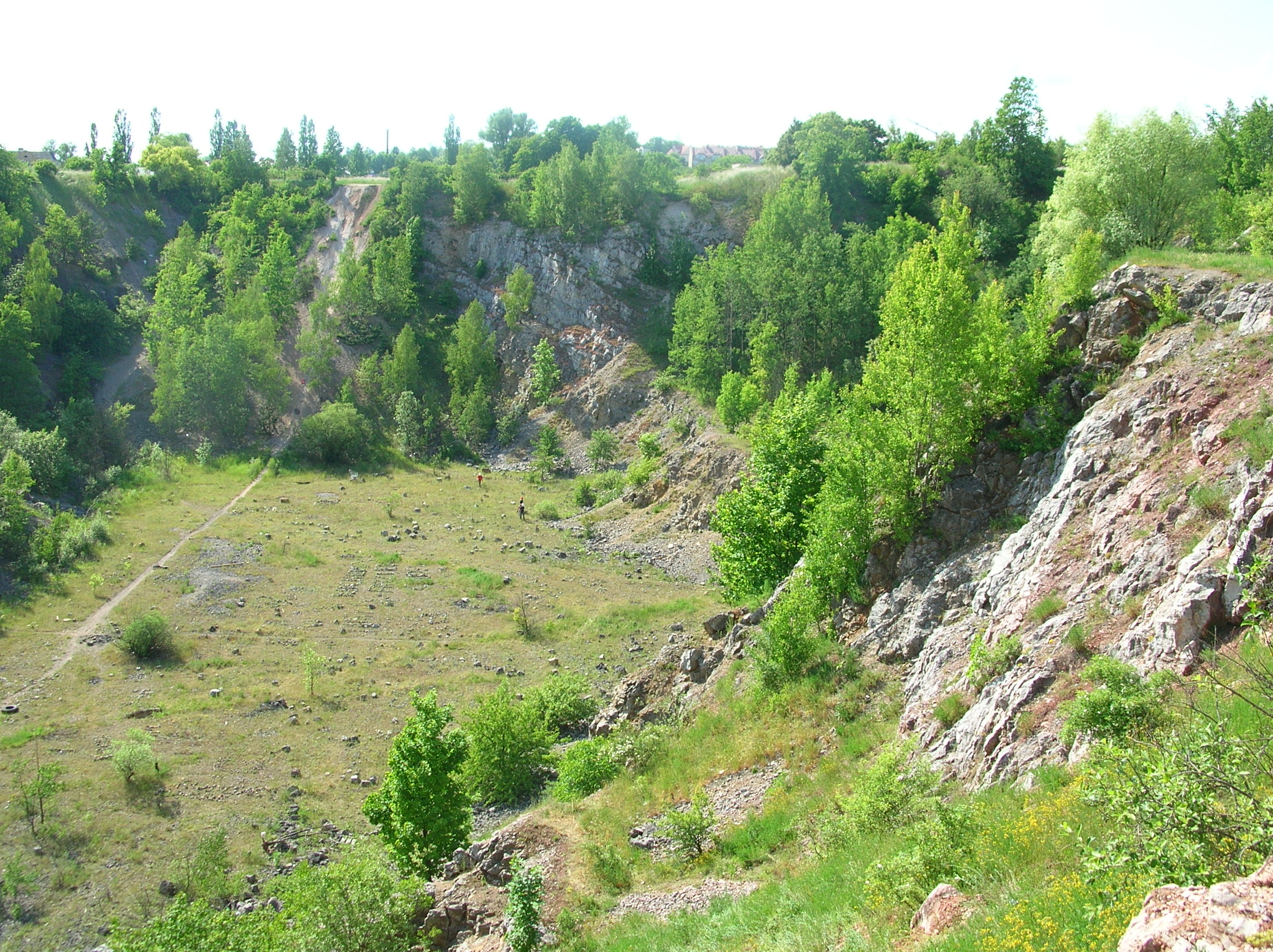 Wietrznia quarry at Kielce (Devonian limestones).